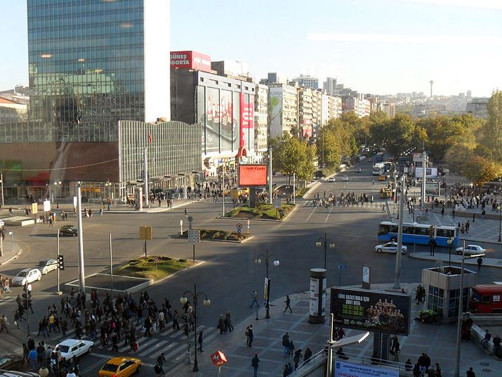 Kızılay Square